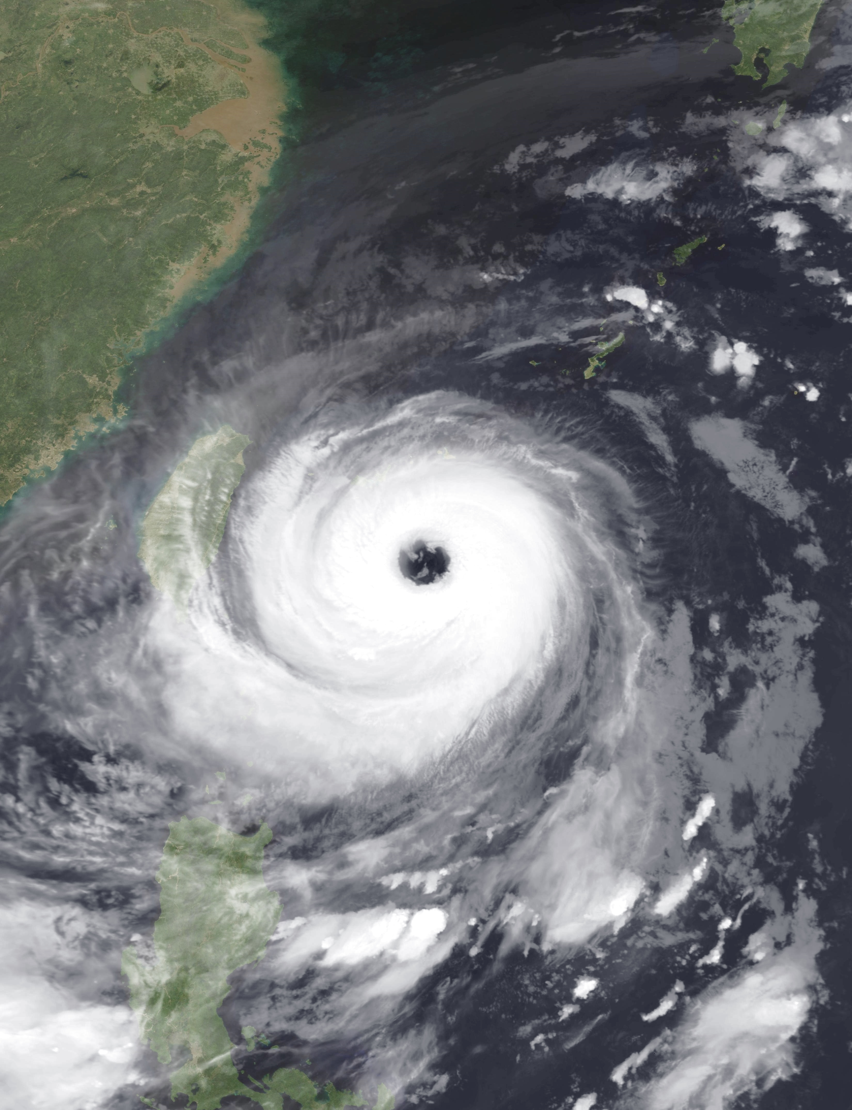 Super Typhoon Dujuan (21W) approaching Taiwan (EOSDIS Worldview)